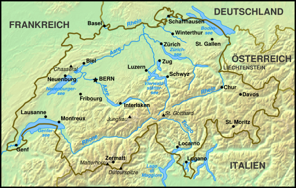 Map of Switzerland